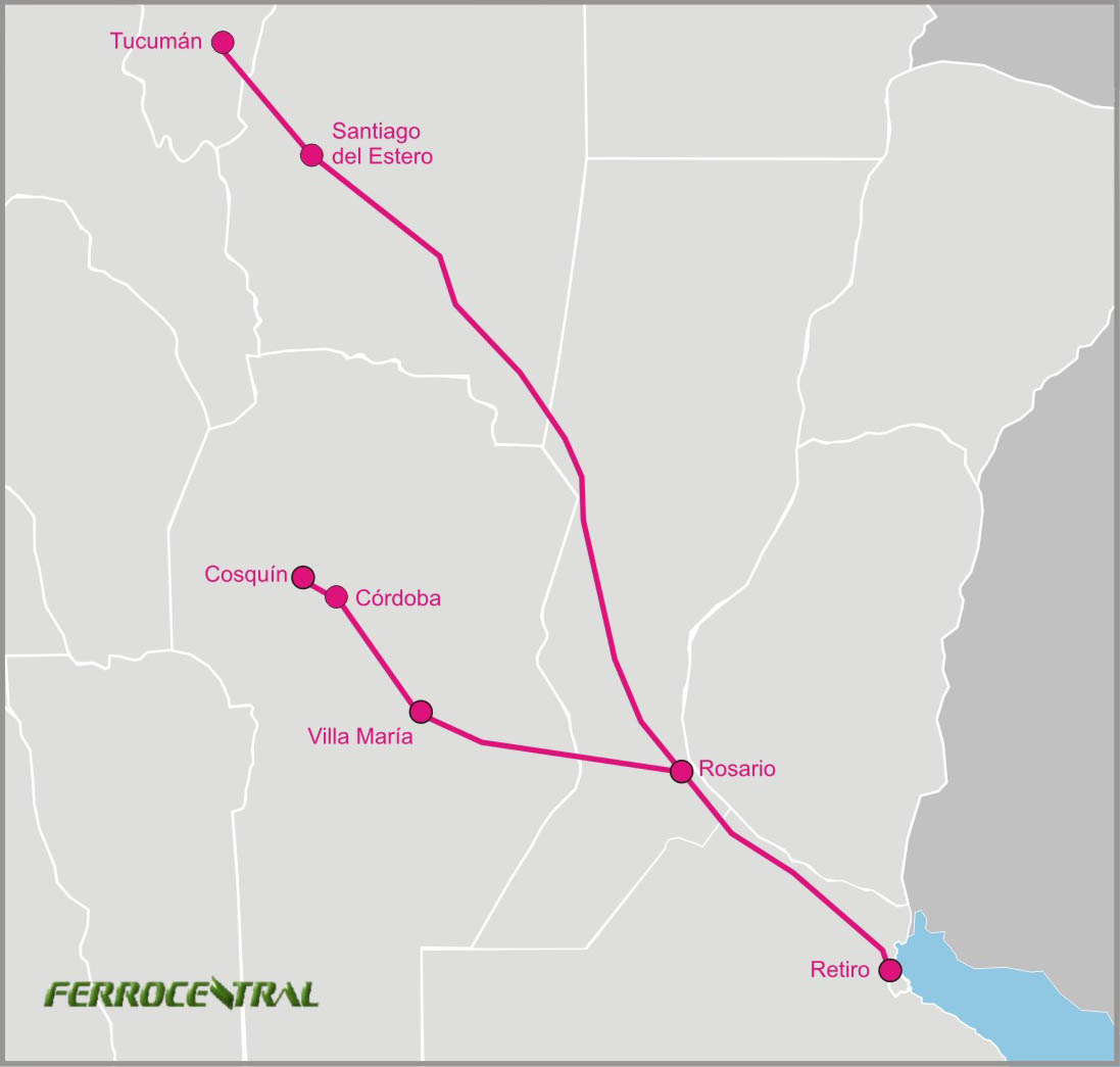 Map of the routes covered by Argentine railway company, Ferrocentral.